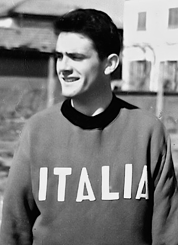 18 years old Italian writer Mario Biondi wearing the tracksuit of the italian junior national team of athletics (Como, Italy, 1957)